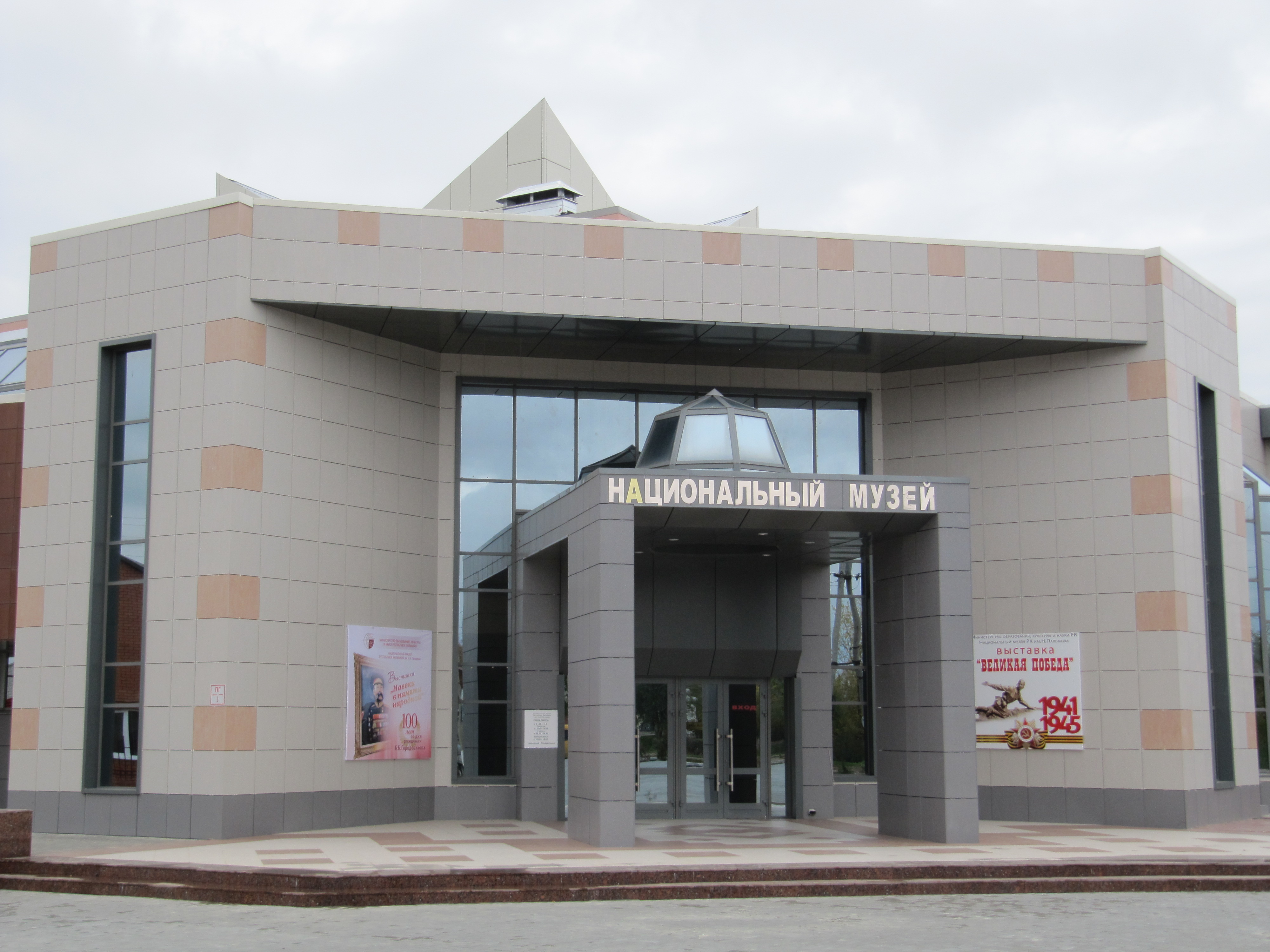 The Kalmykia Museum, in Elista, Kalmykia Republic, southern Russia.